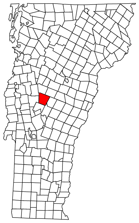 Description: Map of Vermont towns with Granville highlighted Source: Map created by Jared C. Benedict on 26 March 2004. Copyright: © Jared C. Benedict.